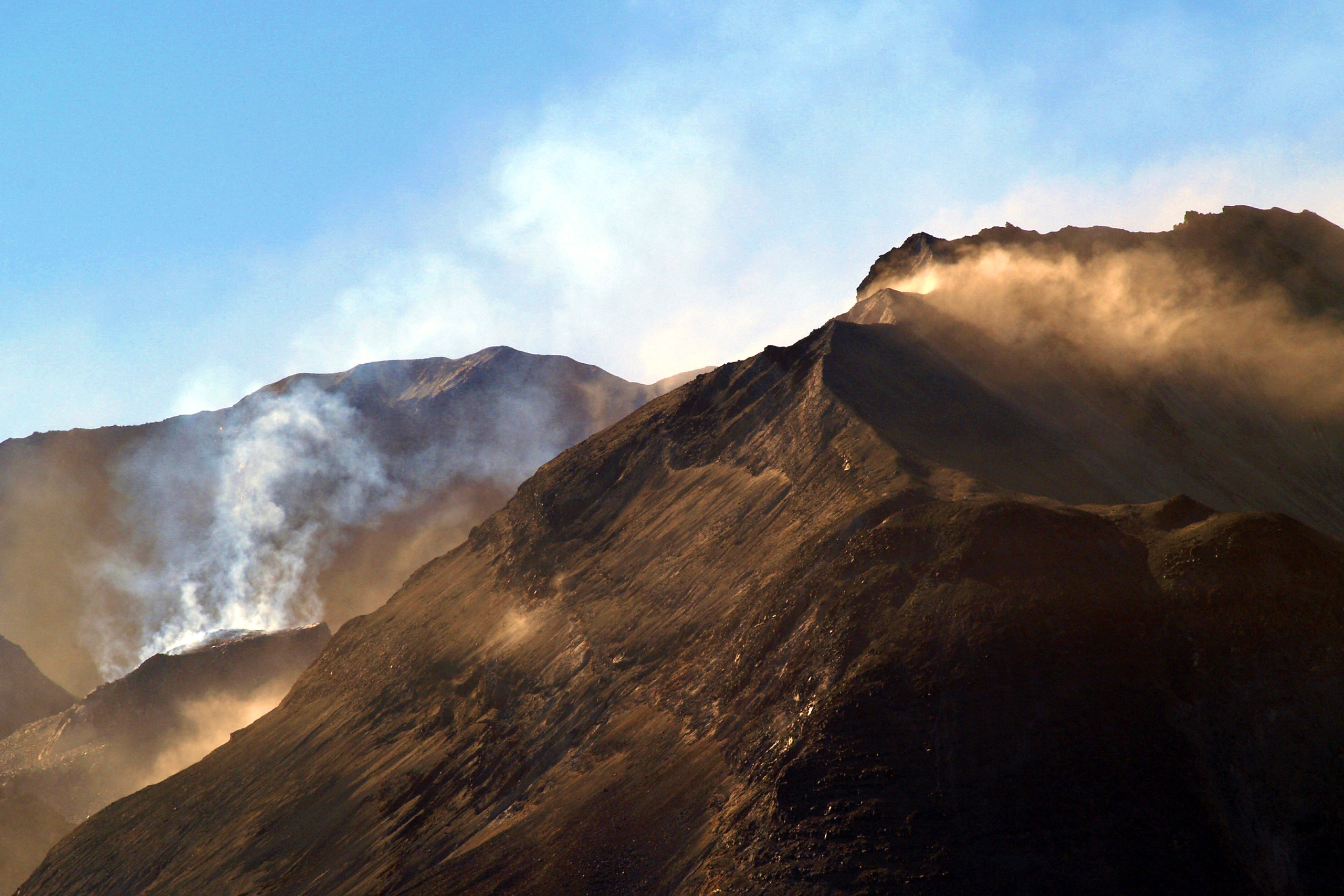 Volcano at Mount St. Helens mountains